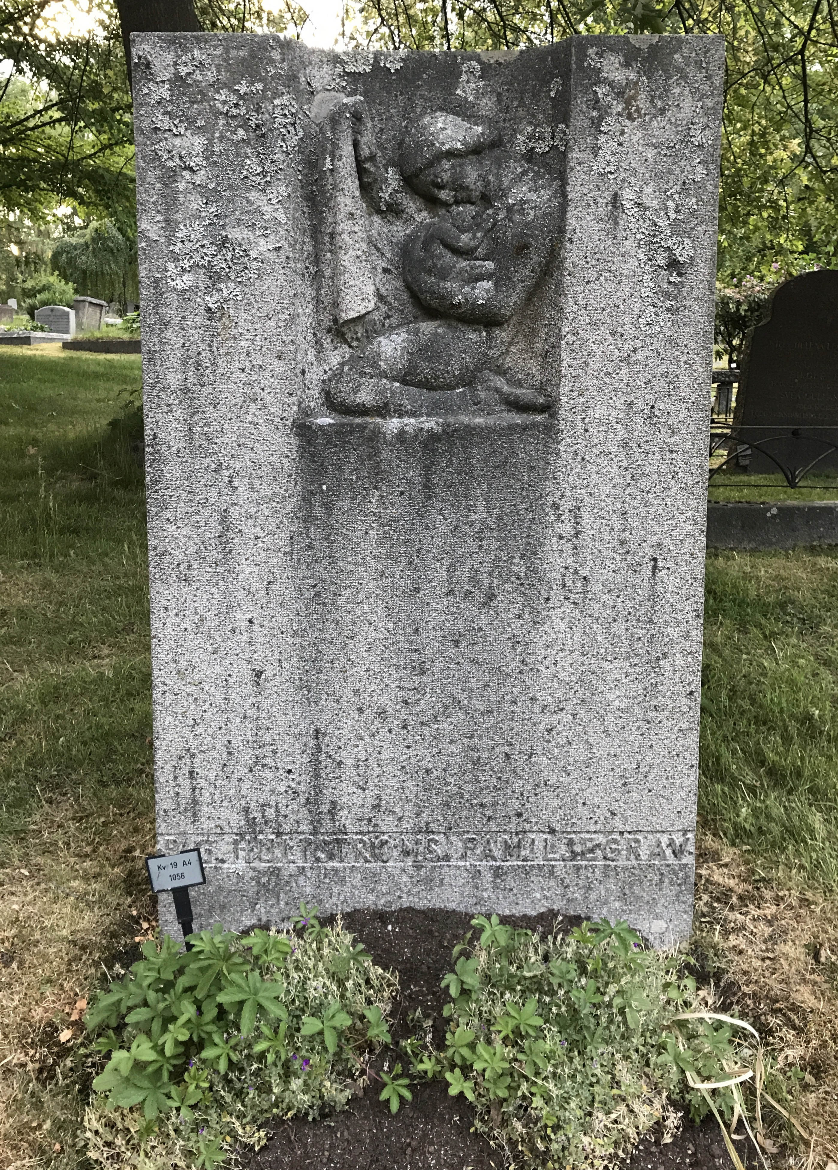 Northern Cemetery Stockholm